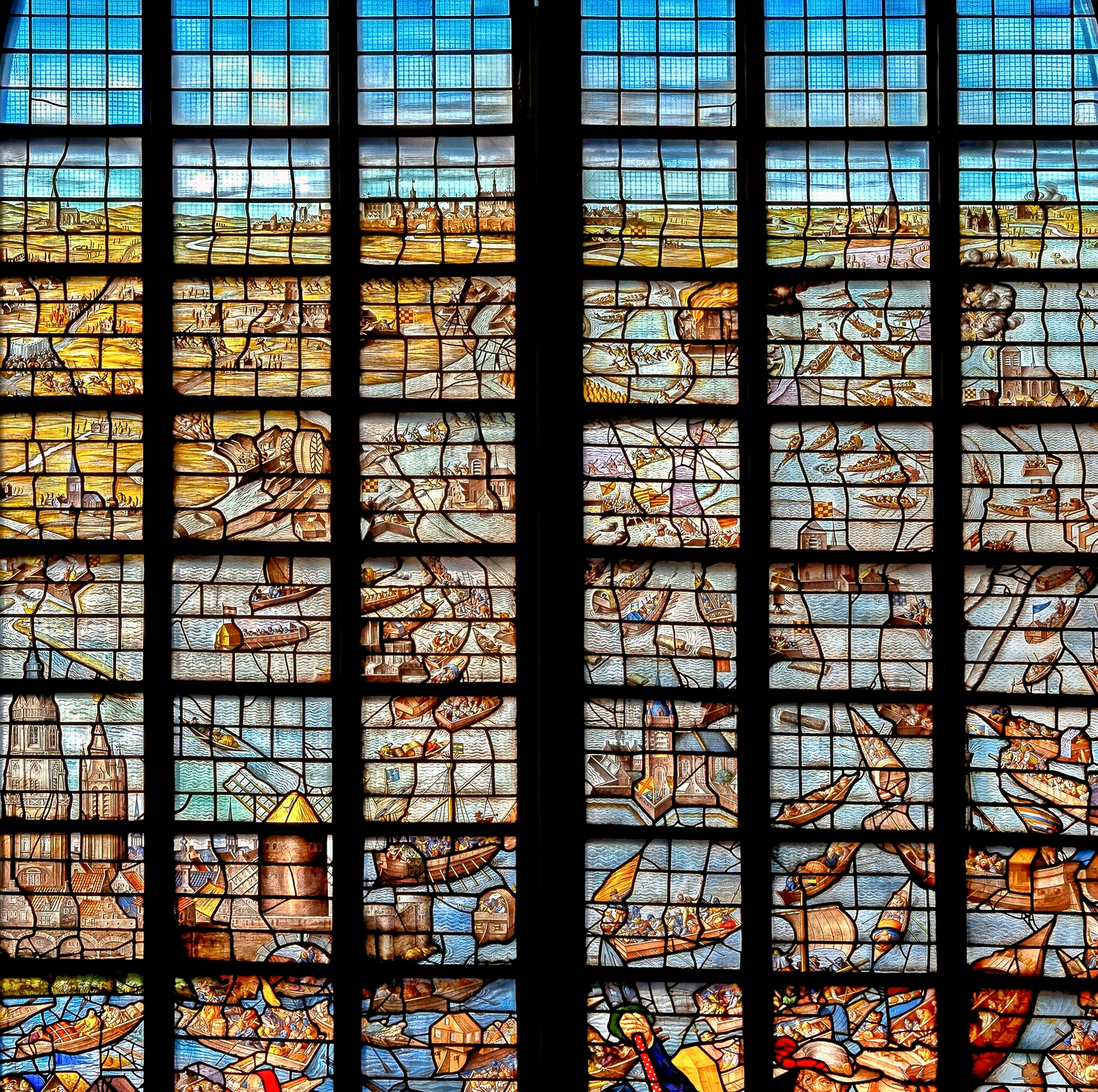 The stained-glass window number 25 (middle) in the Sint Janskerk at Gouda/Netherlands: "The Liberation of Leiden"